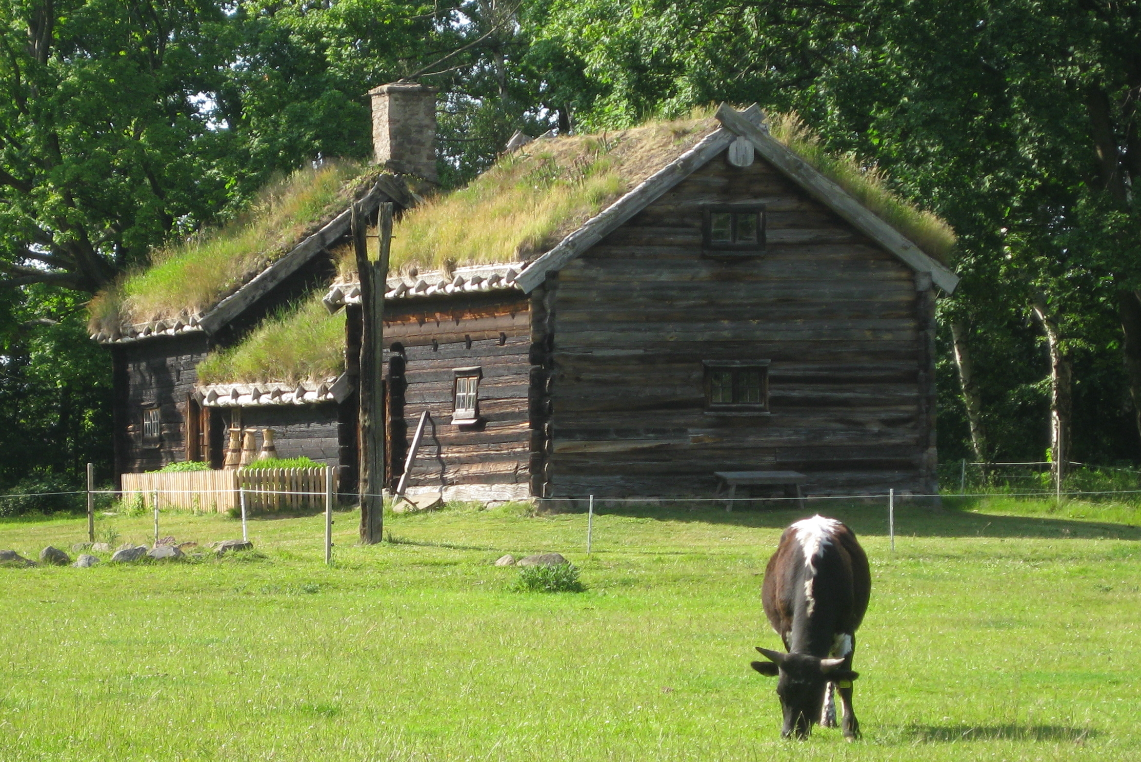 Ågård, preserved farmstead at Fredriksdals museum, Helsingborg, Sweden. The building is originally from the Halland province.